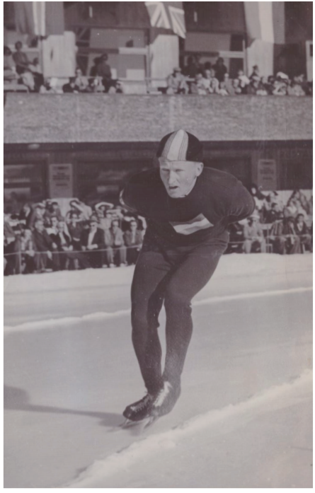 Van der Voort in actie